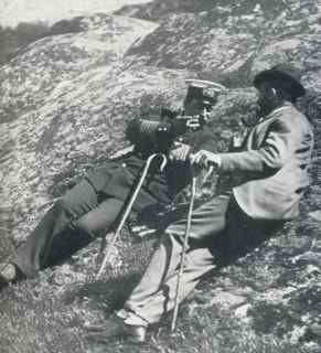 Kaiser-Wilhelm II. und Philipp zu Eulenburg, Nordlandfahrt 1890